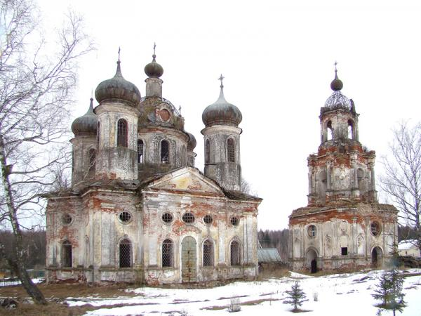 Church in the village of Spass-Kositsy, Naro-Fominsk district, Moscow region.